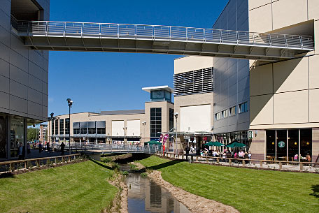 Riverside shopping area, Hemel Hempstead.